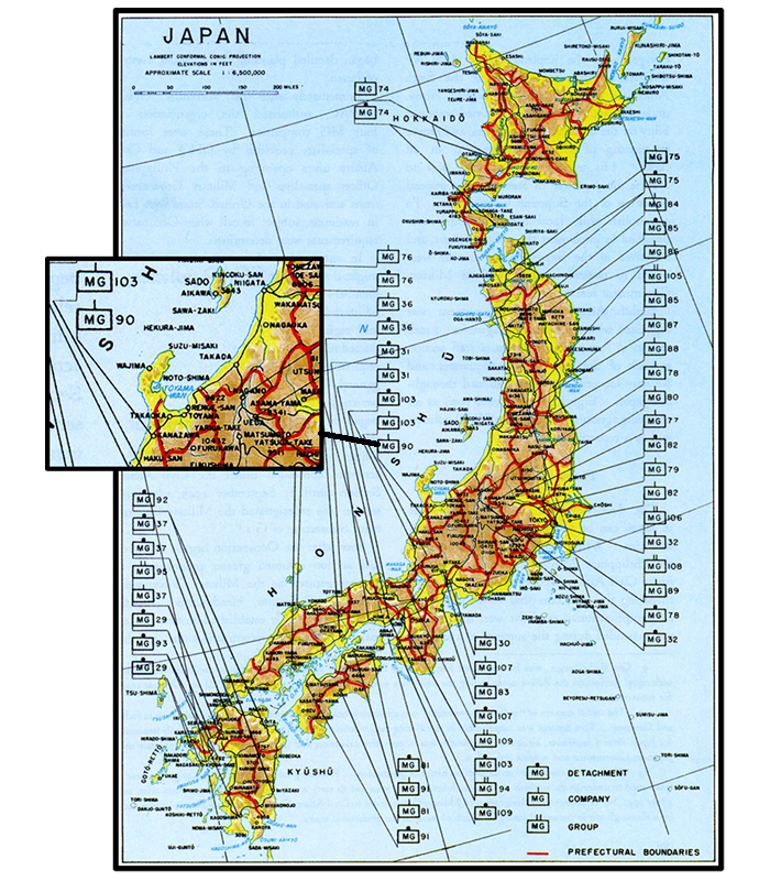 Graphic enlarging the section of a map of Military Government units in Japan circa 1946 from MacArthur's reports